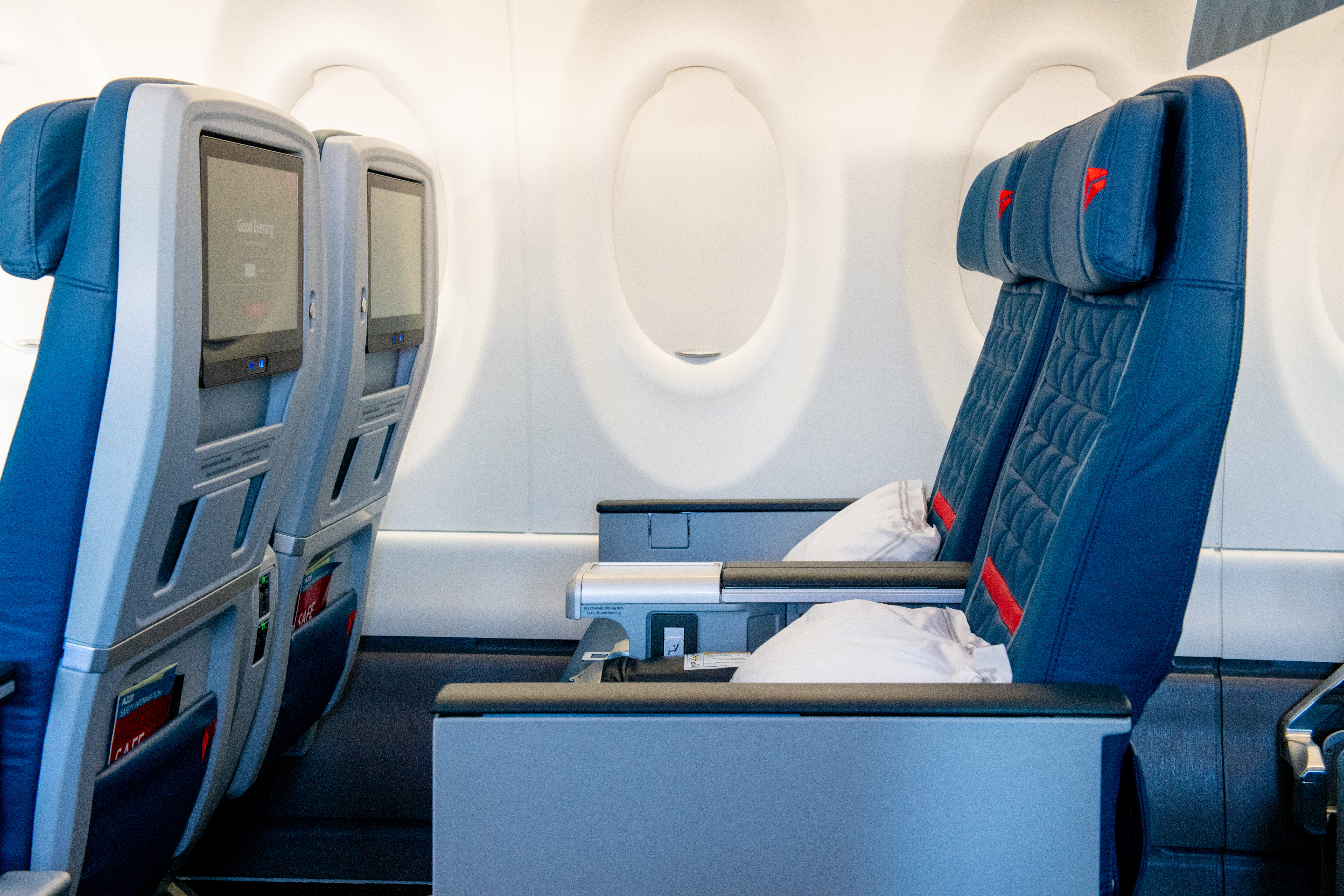 Details are shown on Delta Air Lines first A220 in Atlanta, Georgia at Hartsfield Jackson International airport on Sunday October 28,2018. (Chris Rank/Rank Studios 2018)